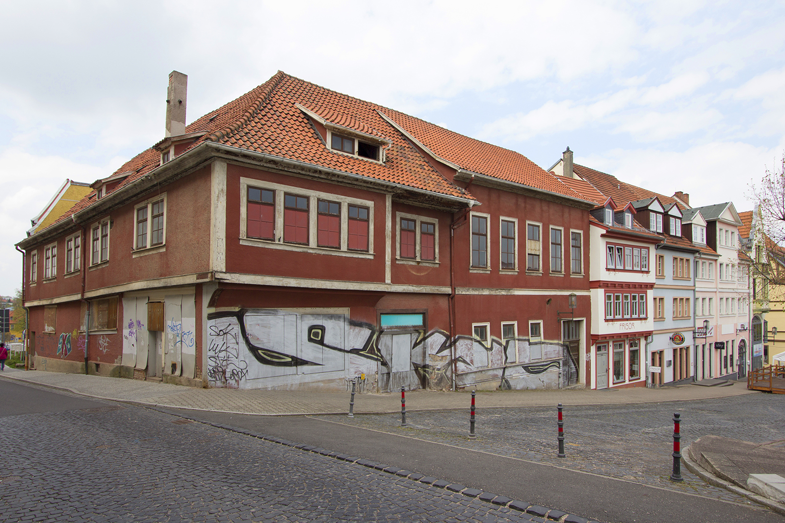 Gotha, Hauptmarkt, „Zum rothen Löwen“